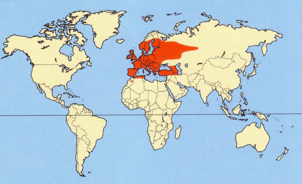 Habitat Zaryanki.